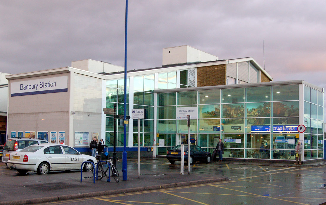 Banbury railway Station in 2008